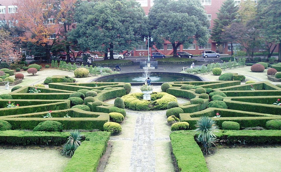 The French Garden in Utsunomiya University.